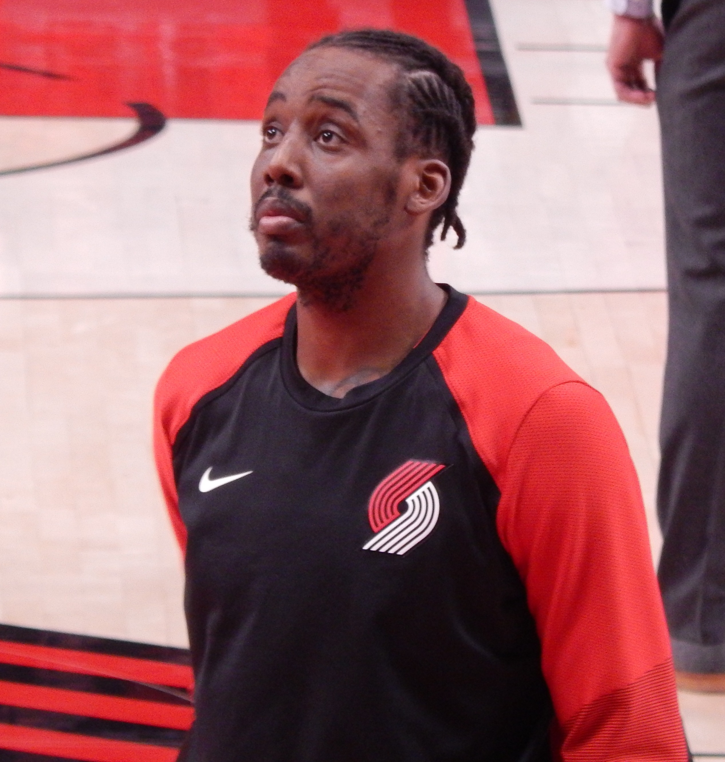 Al-Farouq Aminu #8 of the Portland Trail Blazers against the Cleveland Cavaliers on January 16, 2019 at Moda Center in Portland, Oregon.